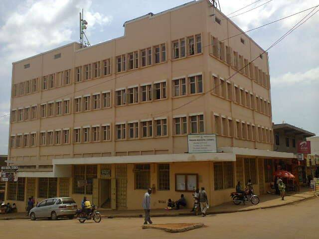 Headquarters of Masaka Municipality